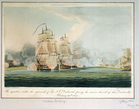 The squadron under the command of Sir J T Duckworth forcing the narrow channel of the Dardanelles, February 19th 1807